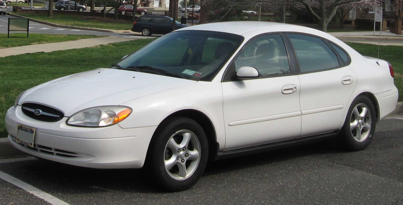 2000-2003 Ford Taurus photographed in College Park, Maryland, USA.